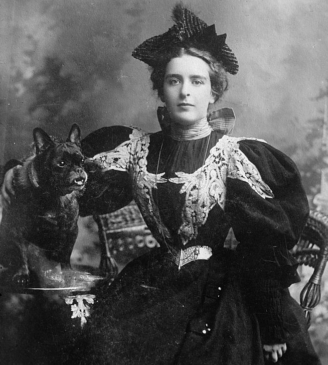 Natalie Clifford Barney (1876-1972)